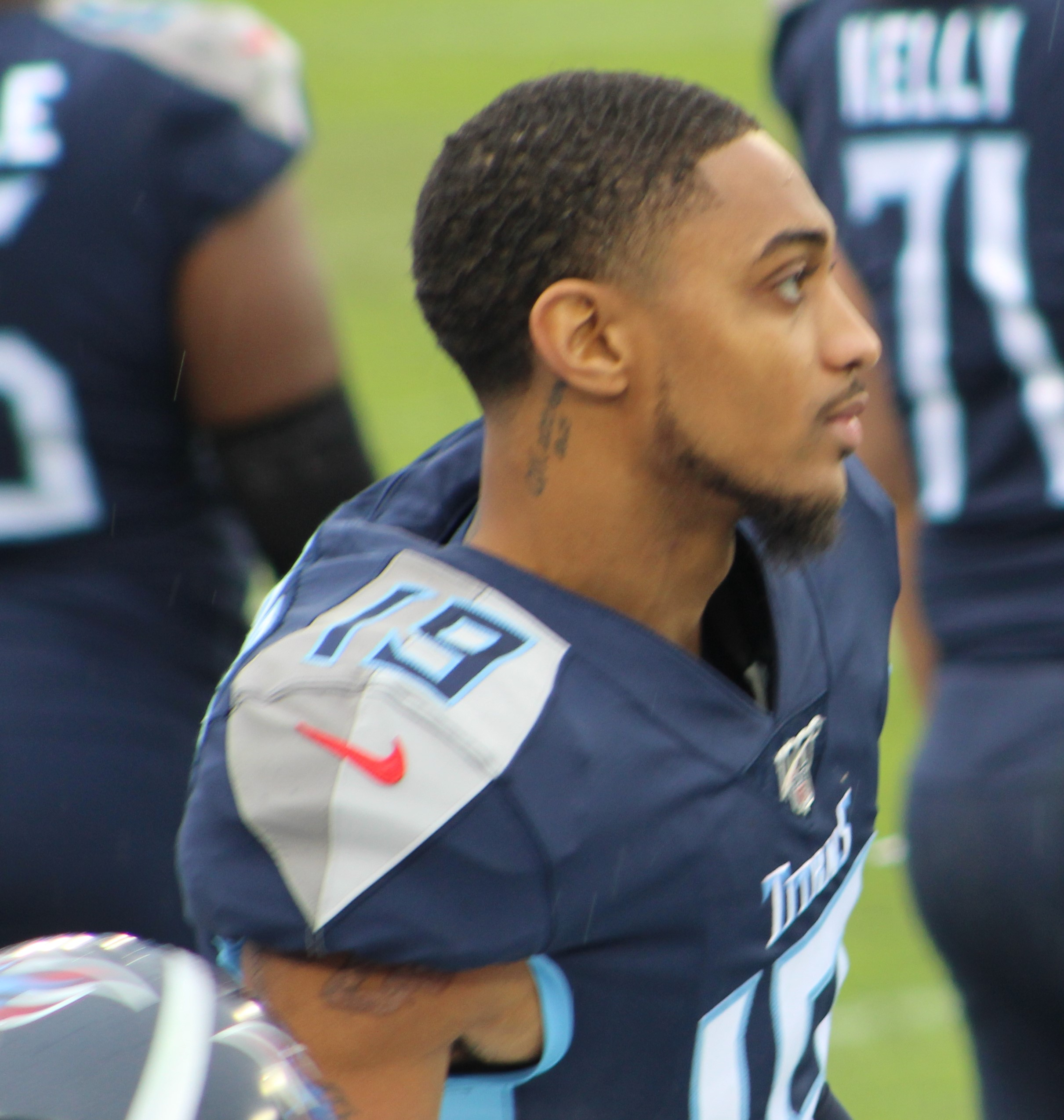 Sharpe with the Titans on December 22, 2019